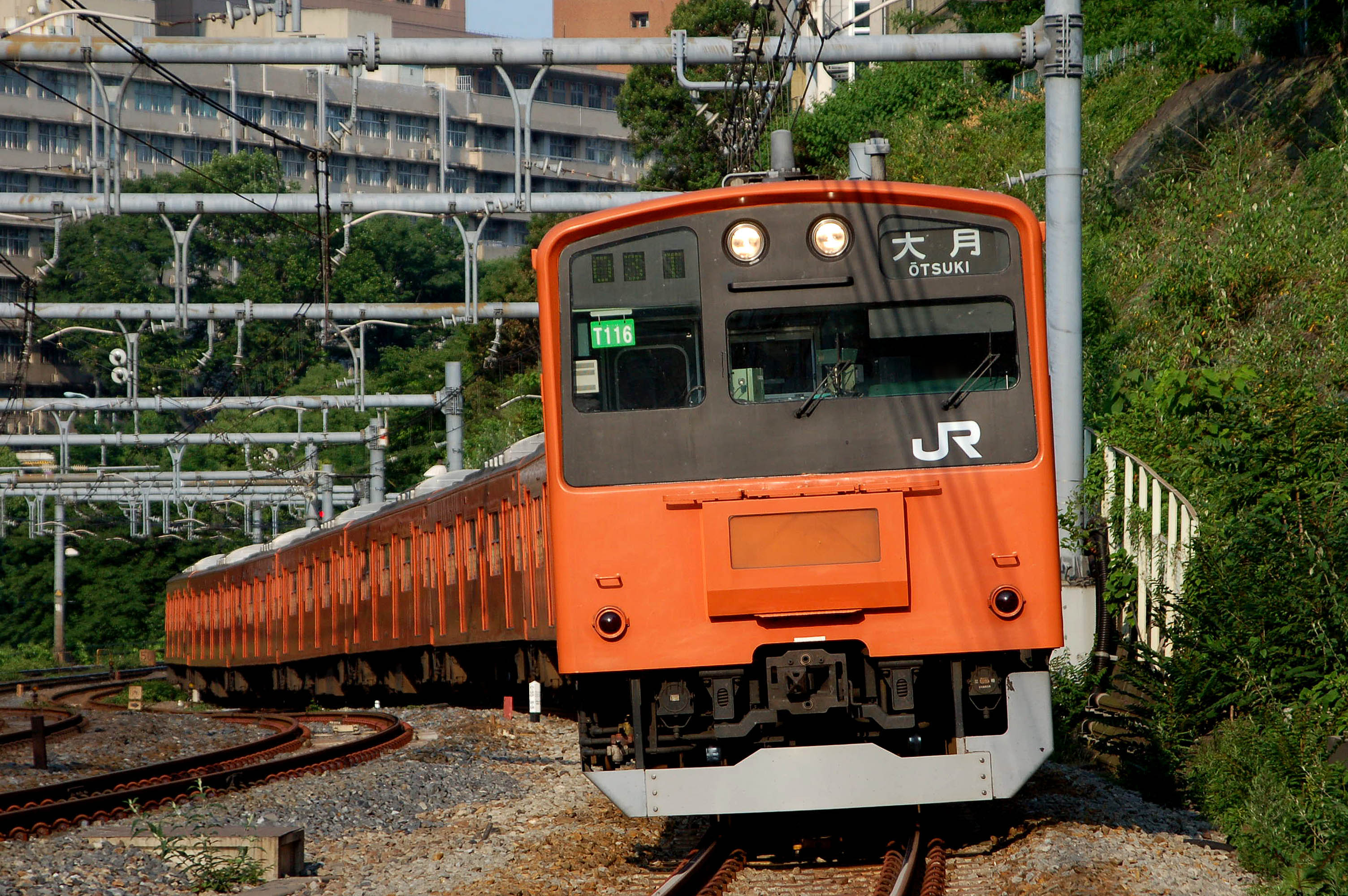 JR East (previously JNR) 201 series electric car.